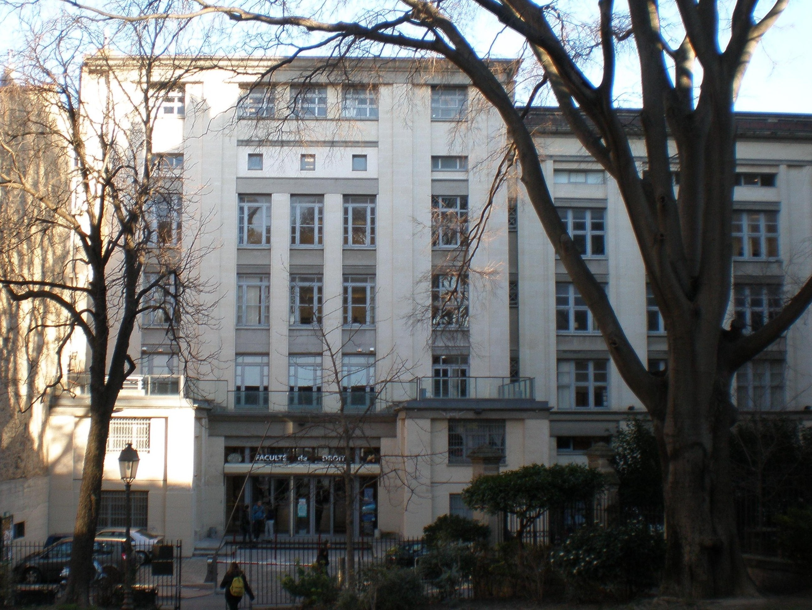 Entrance of the building 2 (street of Cardinal de Cabrières) of the University of Montpellier 1 at Montpellier (Hérault).